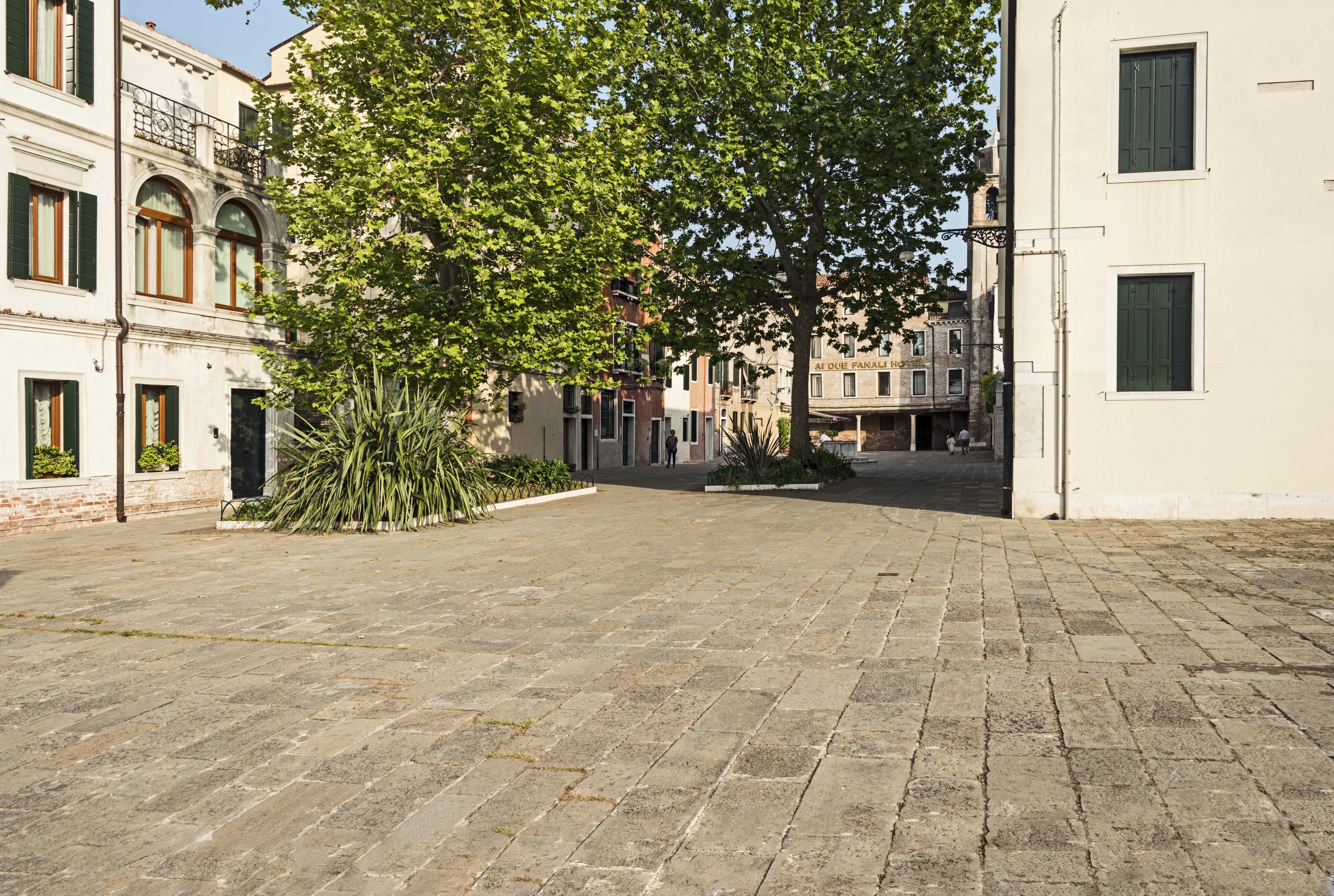 Campo San Simeon Grande Venice, seen from the Grand Canal.